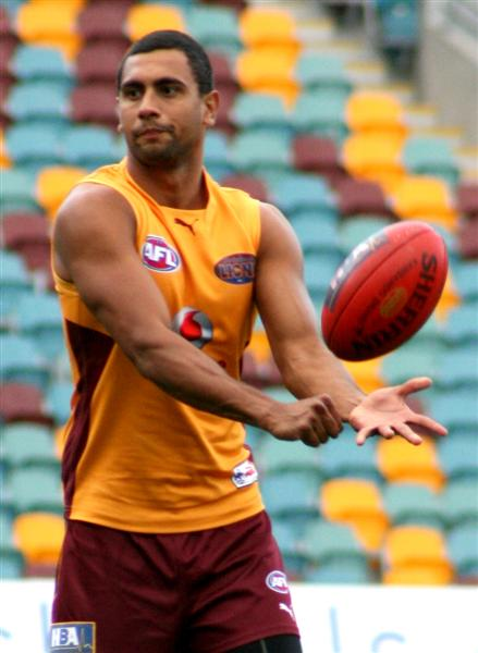 Jason Roe at a Brisbane Lions public training session in 2008.